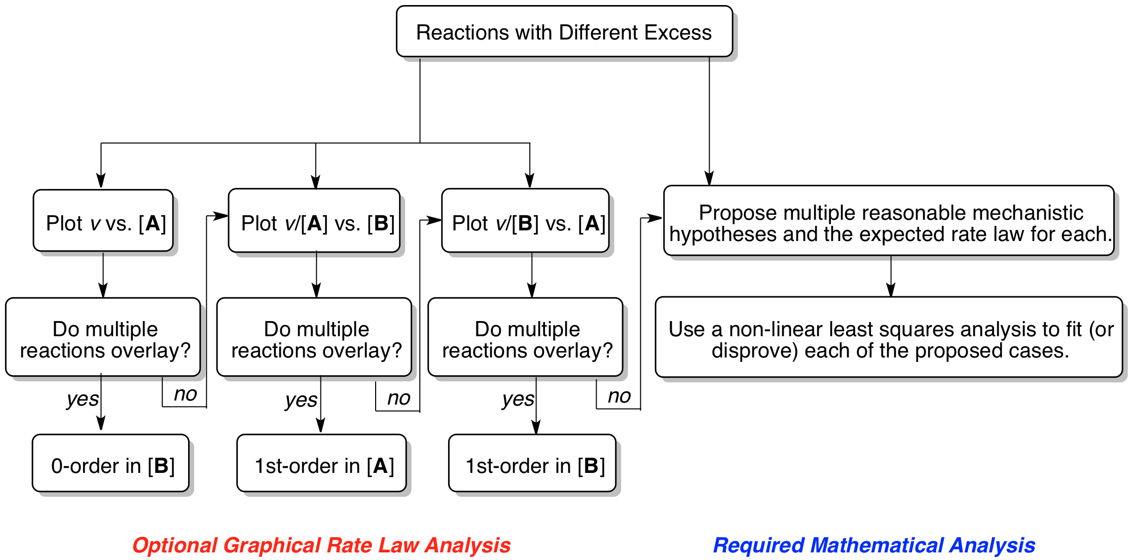 A flow-chart of suggested approaches to determining kinetic orders by RPKA. Adapted from the sequence proposed by Professor Donna Blackmond